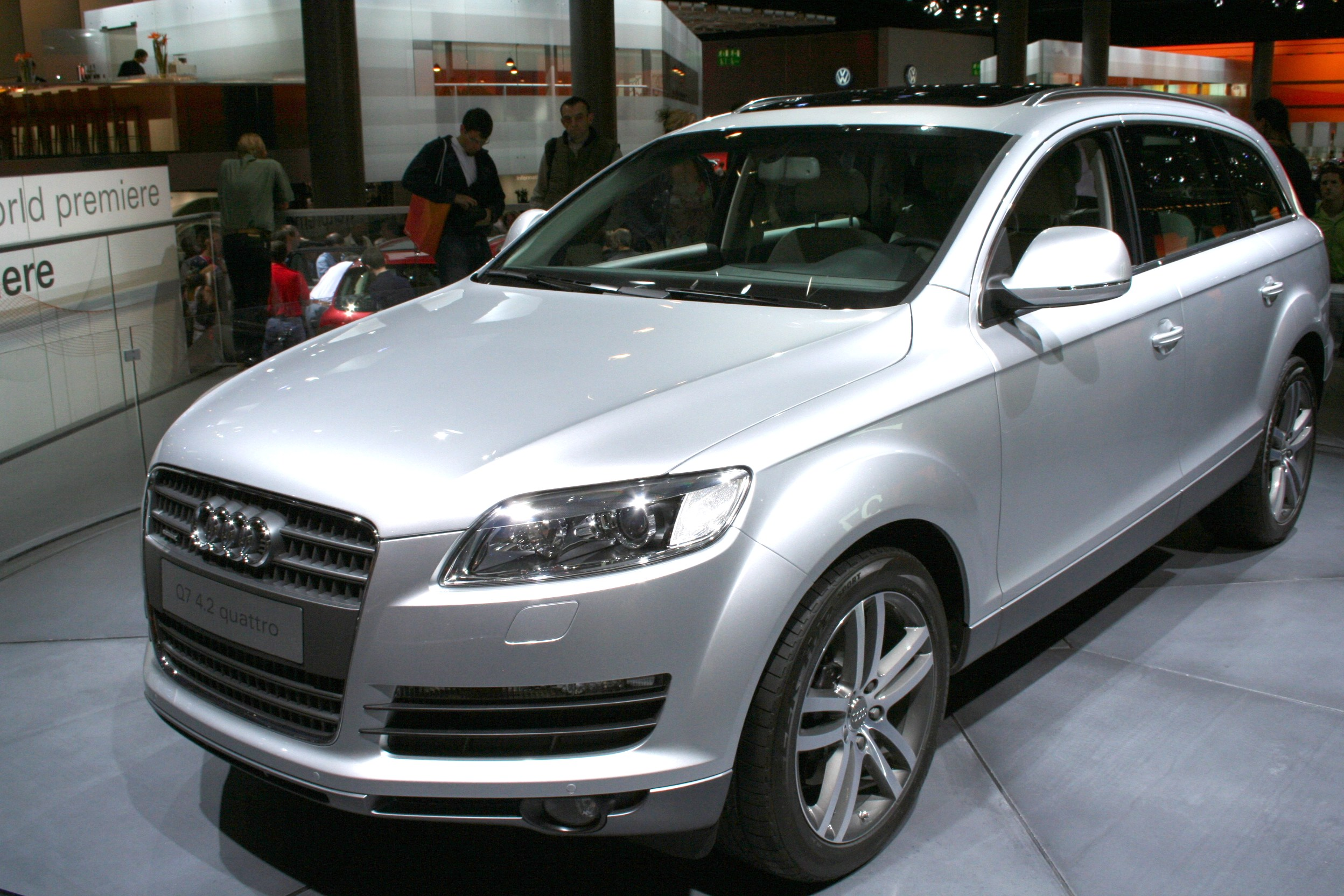 Audi Q7 4.2 quattro on IAA 2005 Photo taken by Ygrek, 17th September 2005.